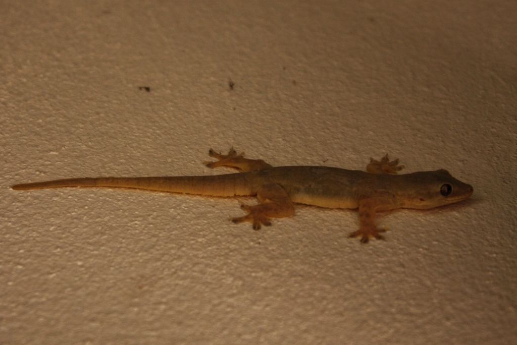 Found in Sa Kaeo, Thailand.